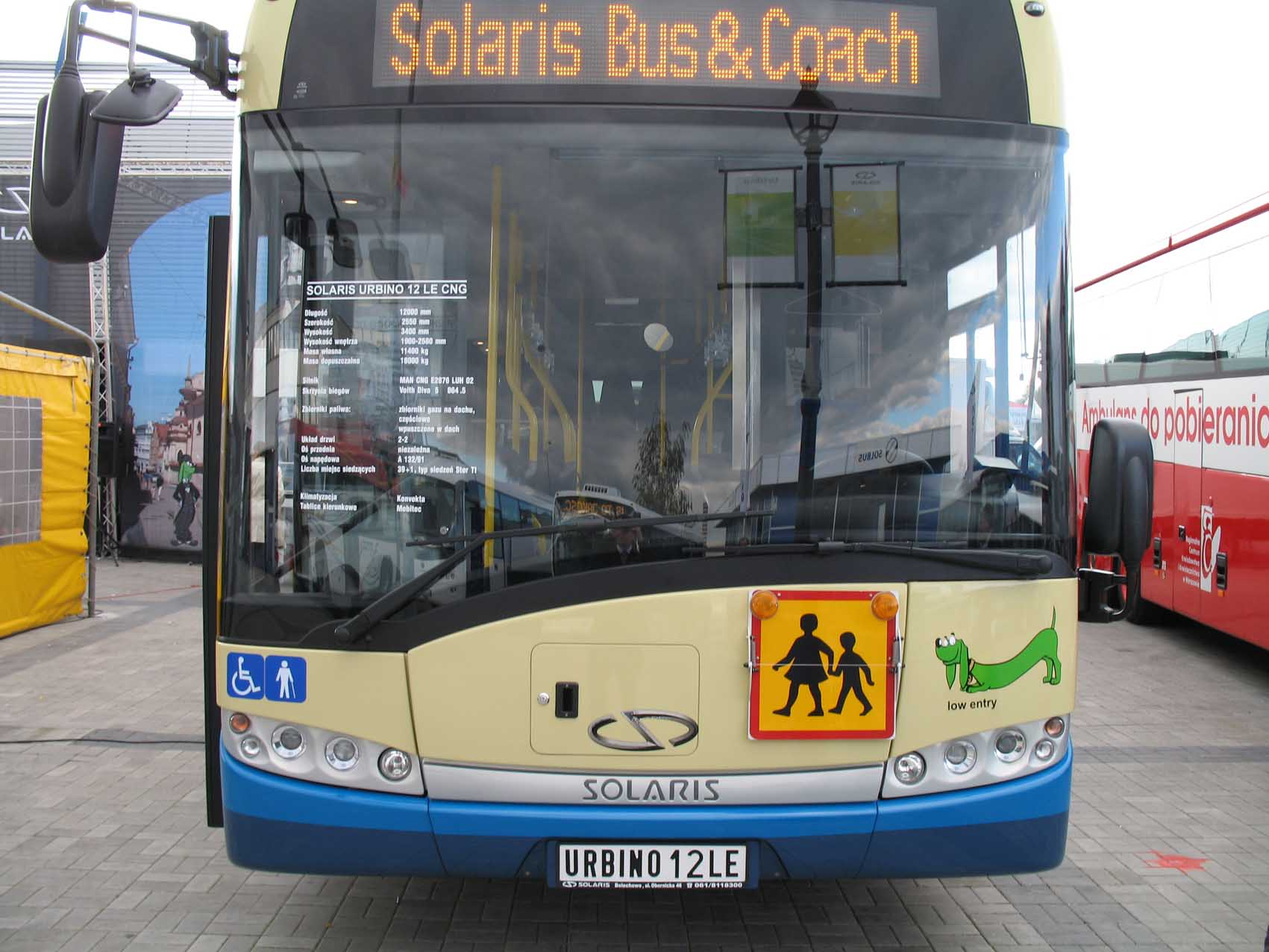 Solaris Urbino 12 LE CNG bus in Kielce, Poland. Transexpo 2007 exhibition.